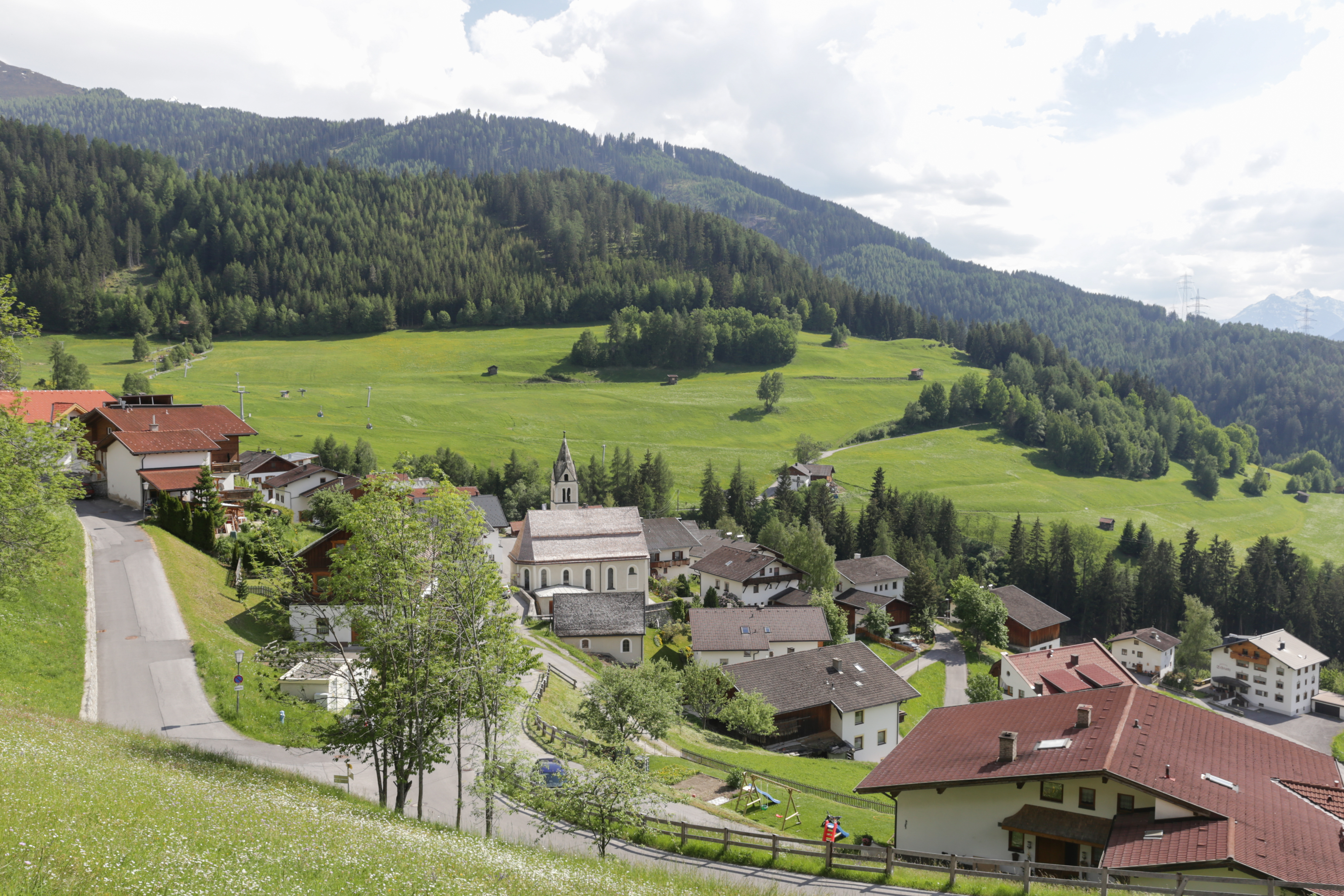 Parish church, Fendels, Tyrol Dieses Foto wurde im Rahmen des von Wikimedia Österreich unterstützten ProjektsWiki Takes Nordtiroler Oberland erstellt. The making of this work was supported by Wikimedia Austria. For other files made with the support of Wikimedia Austria, please see the category Supported by Wikimedia Österreich.